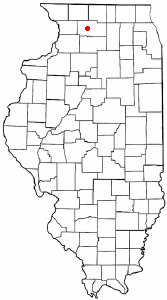 Category:Illinois city locator maps